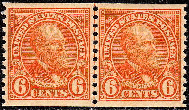 US Postage stamps, James Garfield, coil pair, regular issue, 1932, 6c, orange